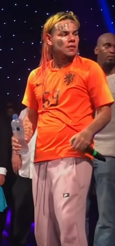 6ix9ine performing in Amsterdam at the Box. 06.24.2018